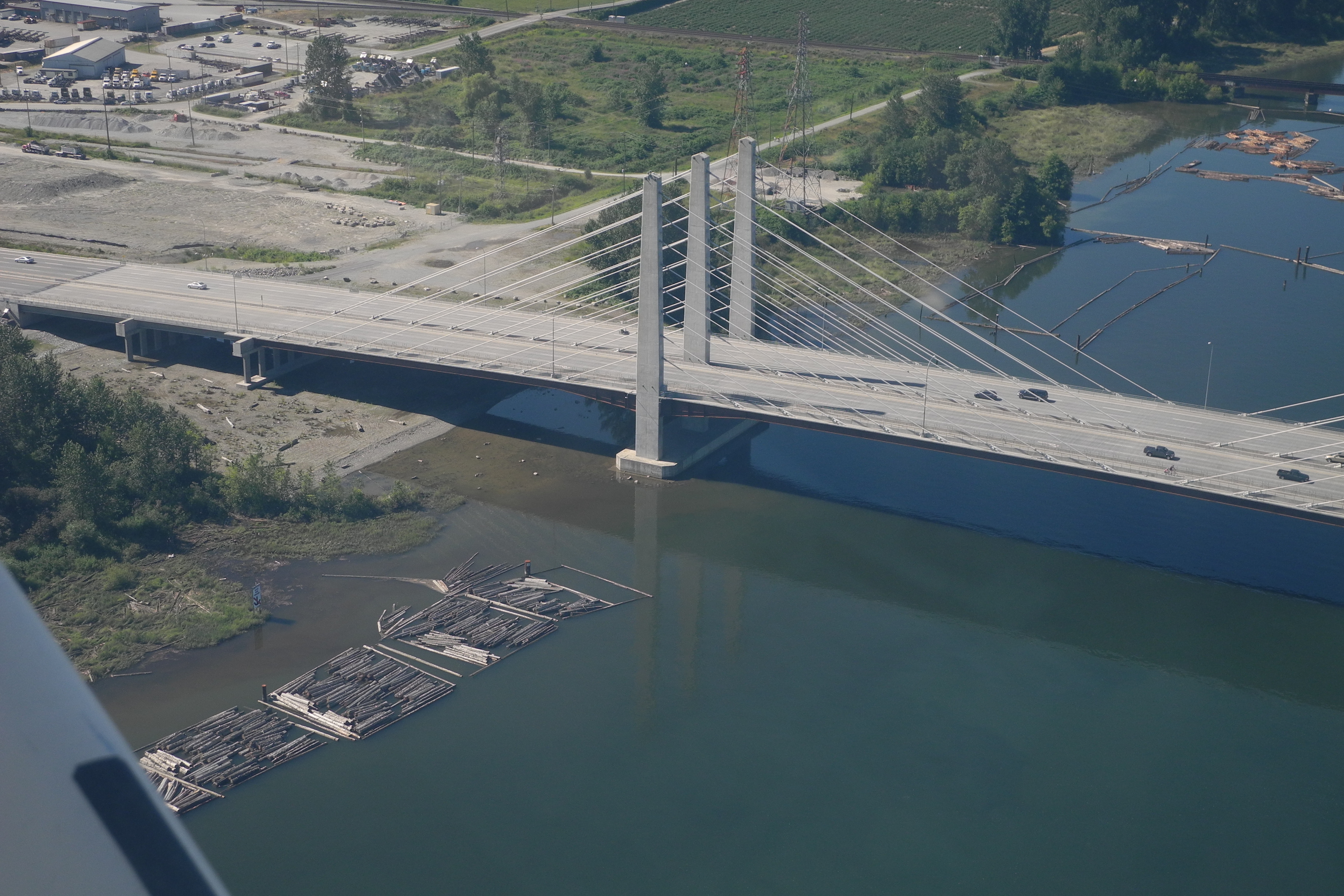 Bridge - Loughheed Hwy